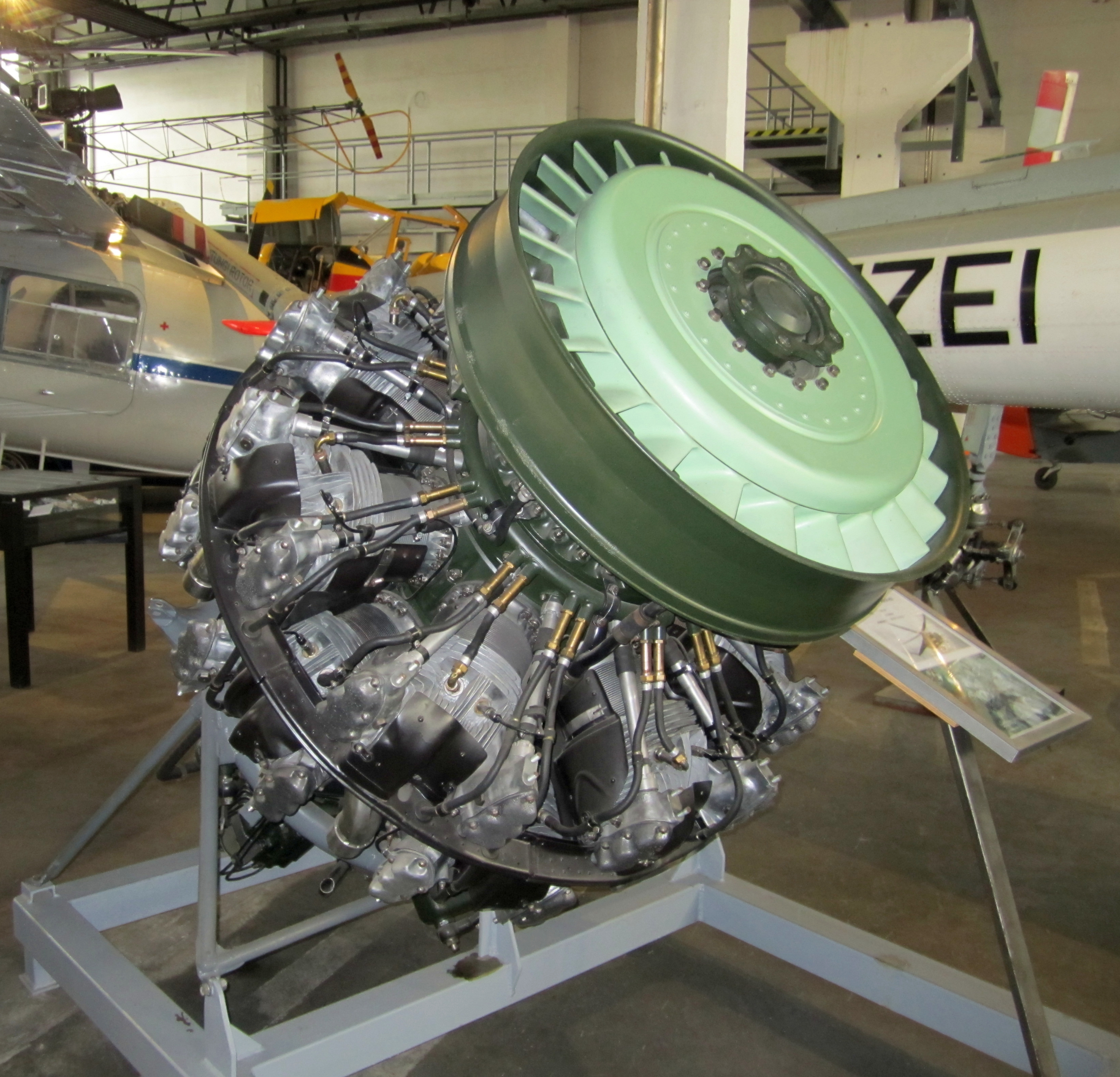 ASh-82V 14 Cylinder radial helicopter Mil Mi-4 engine. Museum für Luftfahrt und Technik Wernigerode, Saxony-Anhalt, Germany